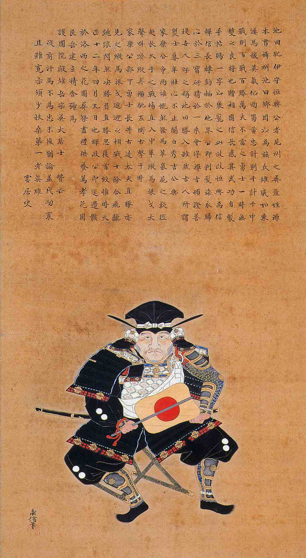 Image of Ikeda Tsuneoki